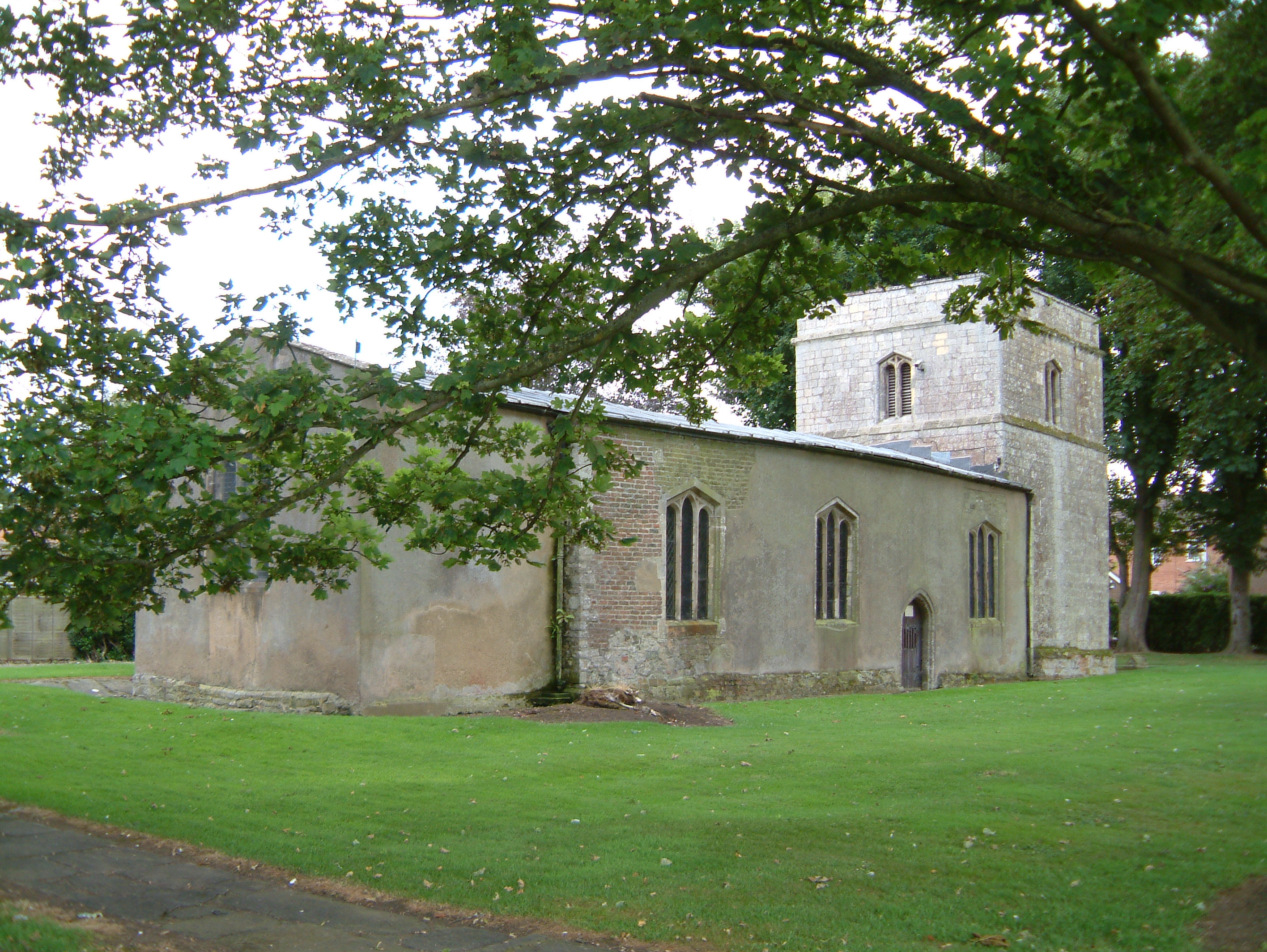 St Clement's parish church, Skegness, Lincolnshire, seen from the northeast